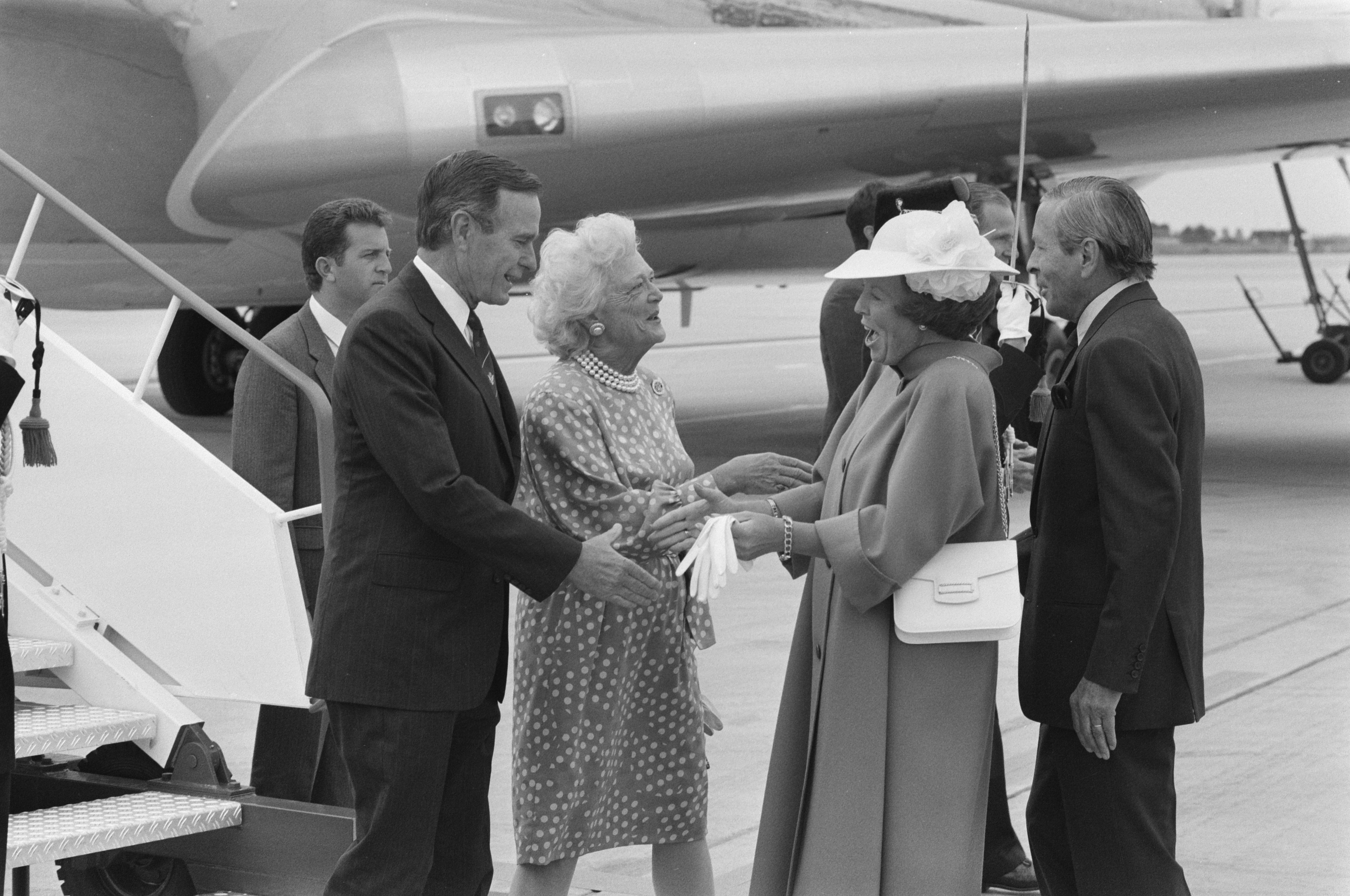 Visit by President Bush of the United States to the Netherlands, greetings at the airport